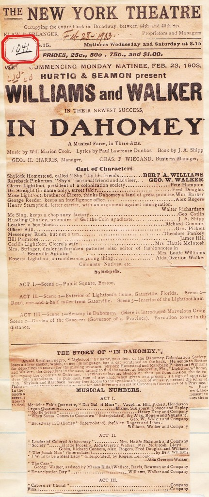 Original program from In Dahomey's debut show